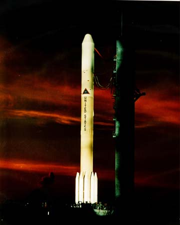 A Delta 1000 series rocket, serial number 95, sits on its pad at Cape Canaveral ready to launch the Explorer 49 spacecraft.